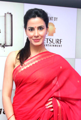 Kirti Kulhari launches Sonia Gandhi's in Aug 19, 2014